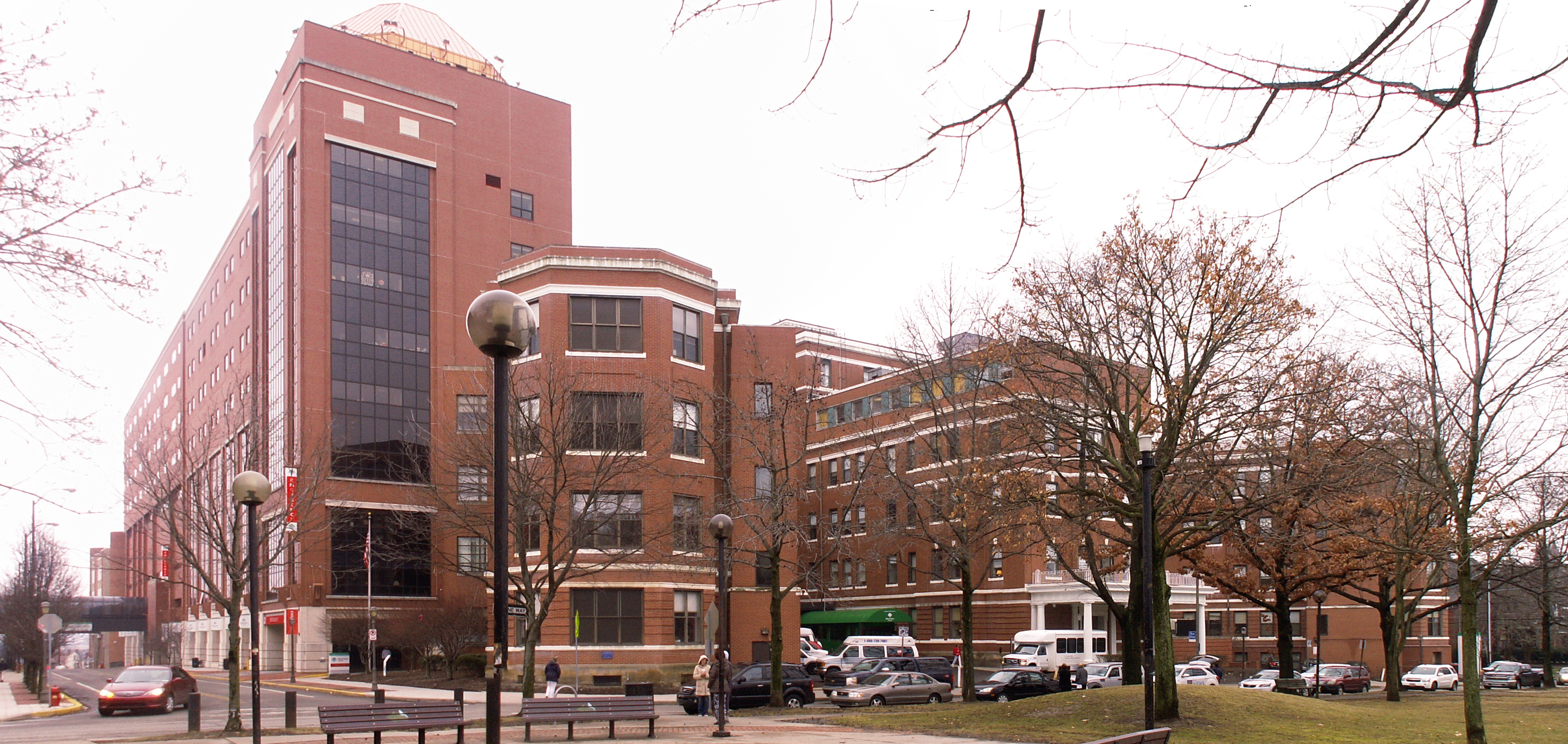 West Penn Hospital, Pittsburgh, from Friendship Park